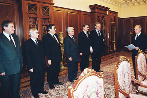 THE KREMLIN, MOSCOW. Before the beginning of a conference on the development of diamond production in Russia. Vyacheslav Shtyrov, president of the ALROSA company, is being presented with a badge “Merited Builder of Russia” for his contribution to rebuilding the regions of Yakutia regions hit by the flood.